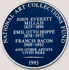 Plaque at entrance of the house of Sir John Millais in London. 7 Cromwell Place, Kensington, London SW7 2JN